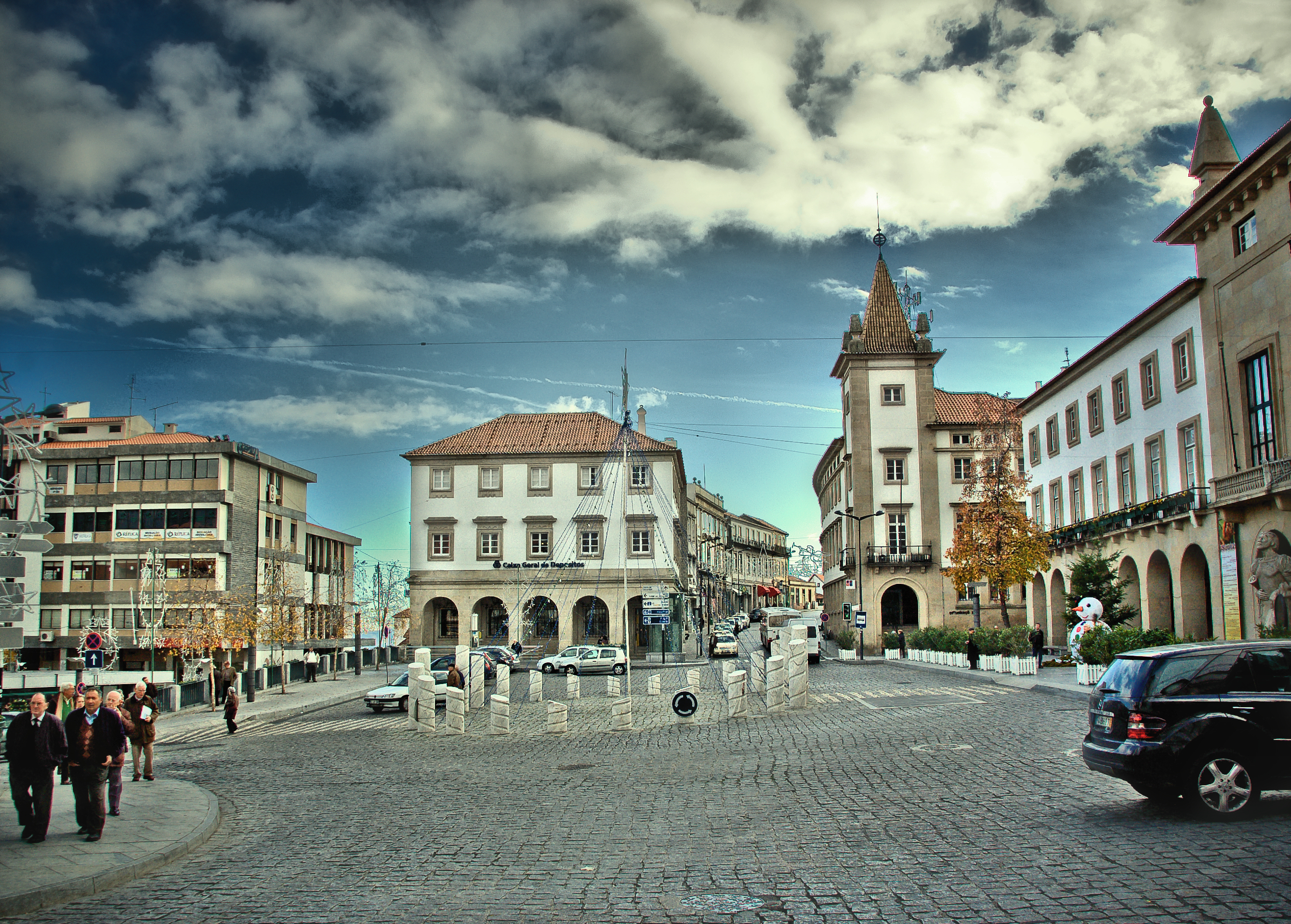 HDR photo.